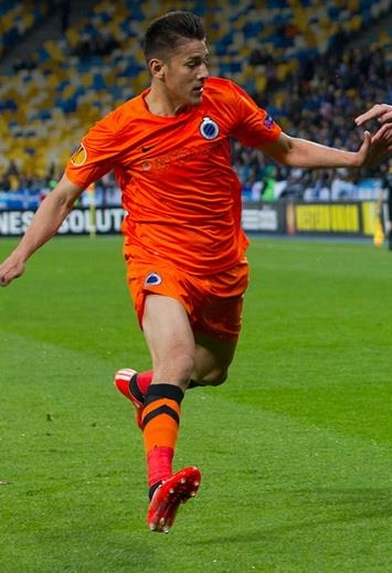 Óscar Duarte